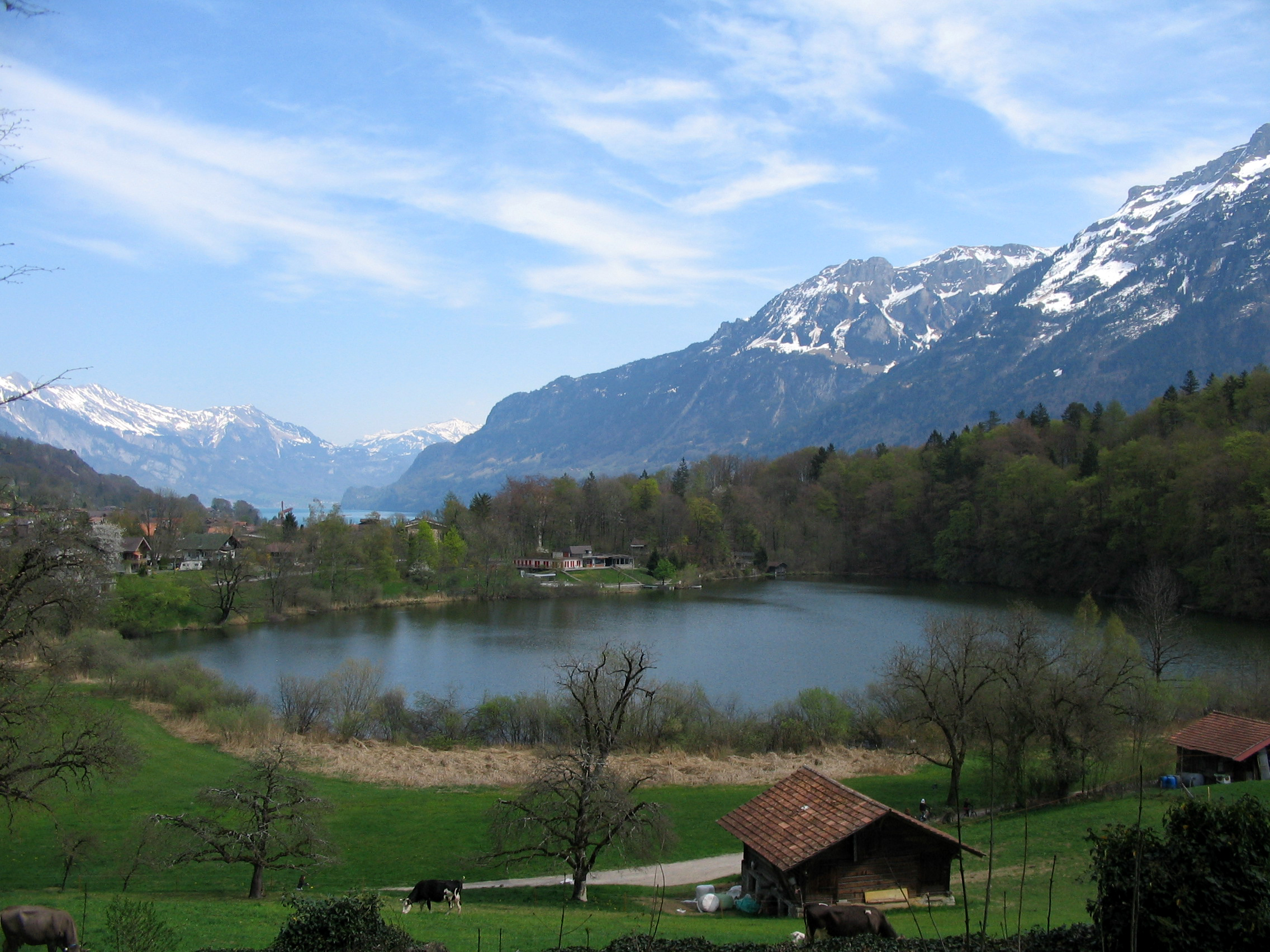 The Burgseeli (=little castle lake) between the villages Ringgenberg and Goldswil in the Bernese Oberland (Canton of Berne / Switzerland).